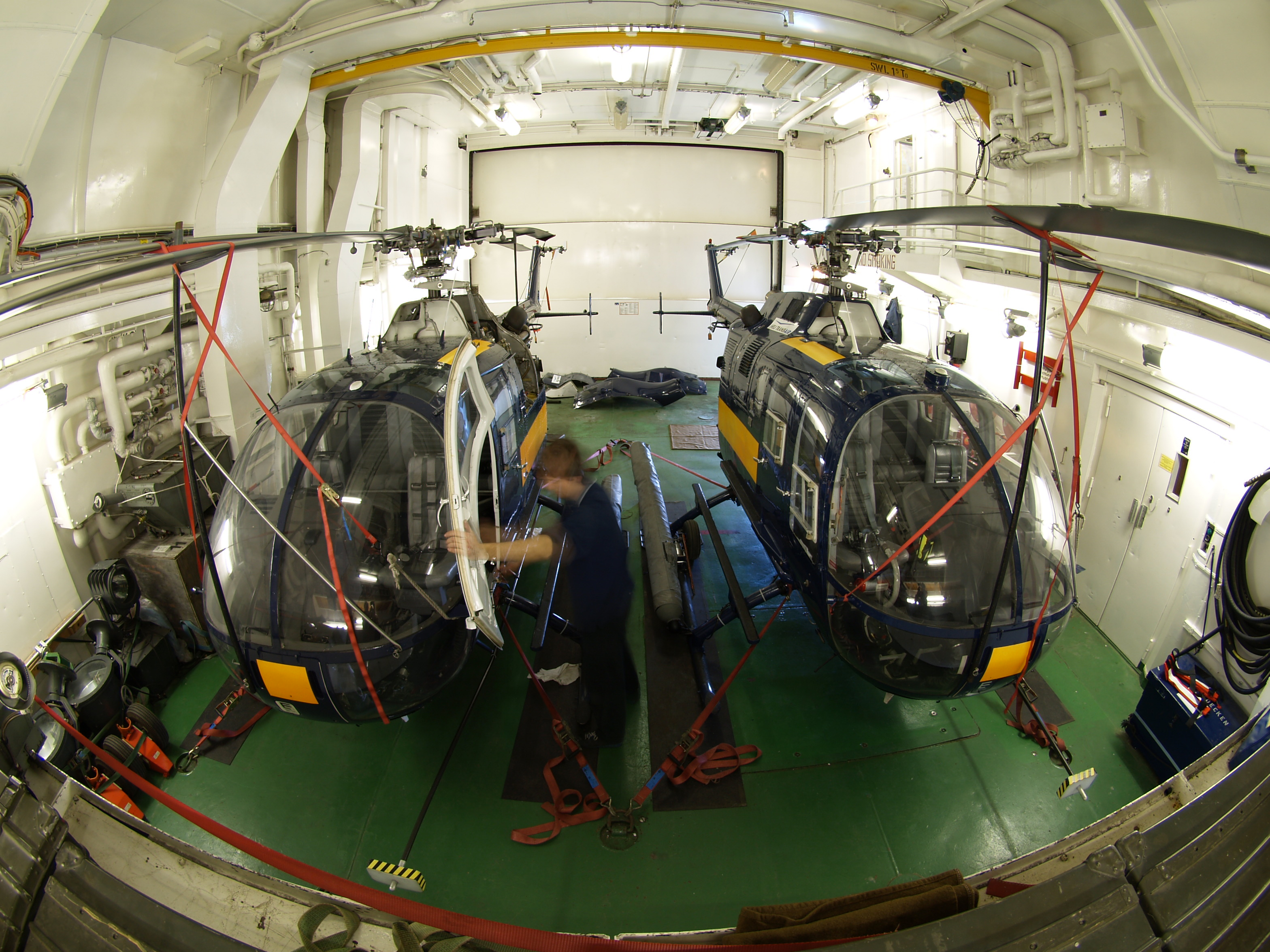 Photo from the German research vessel POLARSTERN helicopter hangar